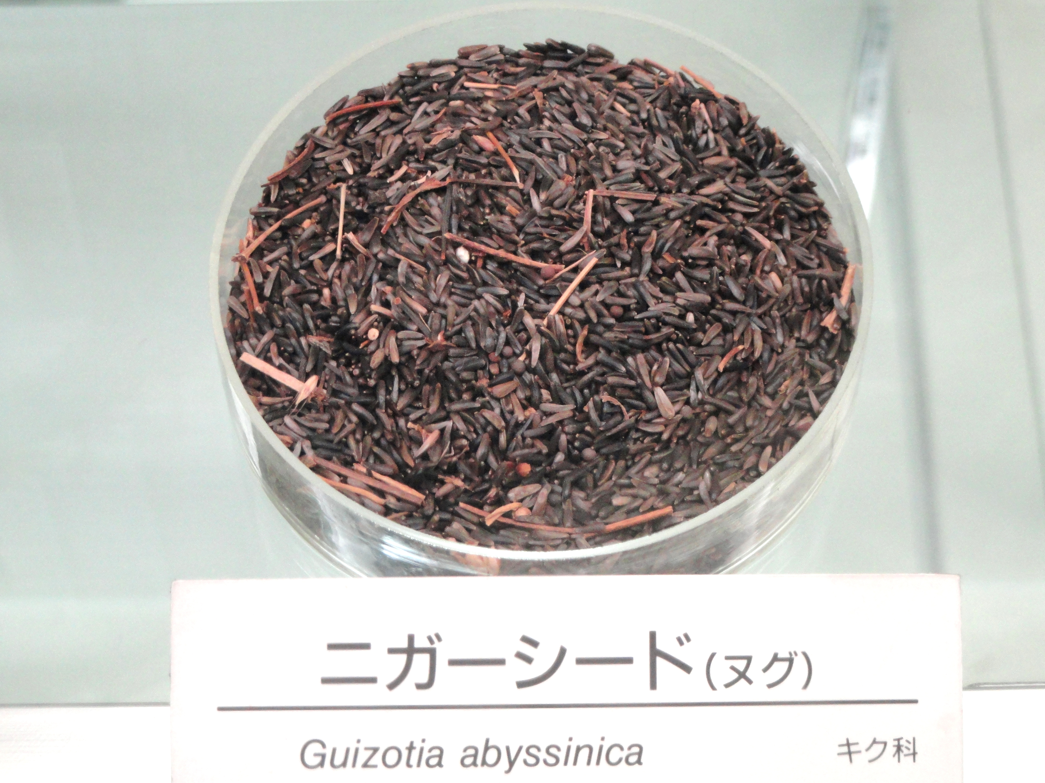 Exhibit in the Osaka Museum of Natural History, Osaka, Japan.